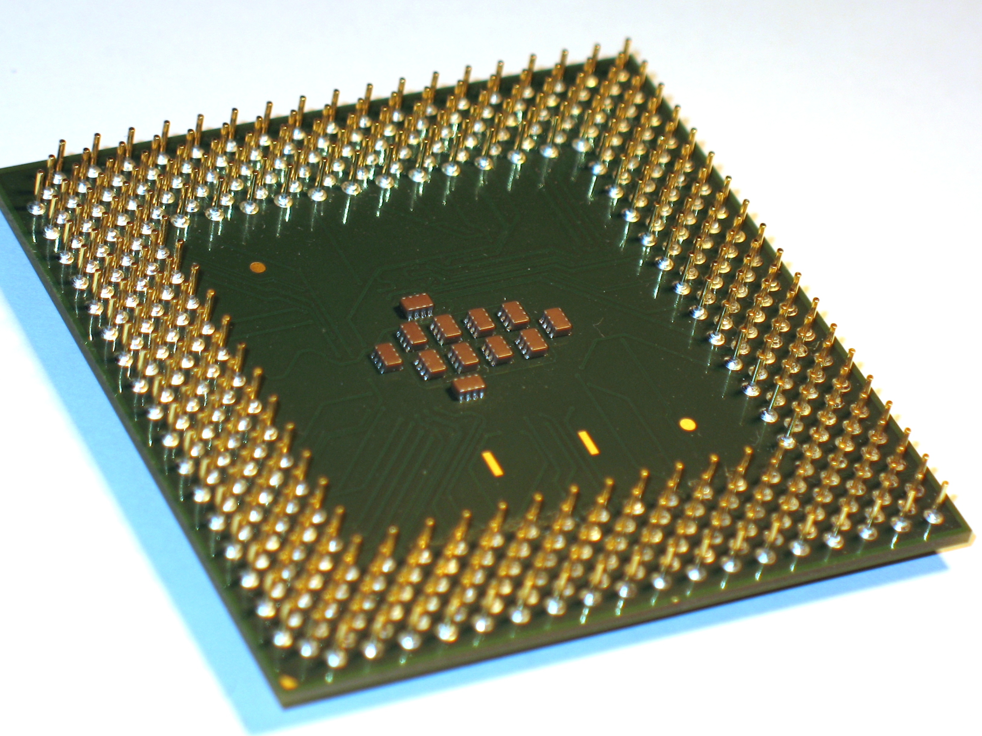 CPU Intel Celeron 1100 socket 370 - The legendary Tualatin/Легендарный Туалатин(Tualatin) sSpec Number: SL5ZE CPU Speed: 1.10 GHz Bus Speed: 100 MHz Bus/Core Ratio: 11 L2 Cache Size: 256 KB L2 Cache Speed: 1.1 GHz Package Type: FC-PGA2 Manufacturing Technology: 0.13 micron Core Stepping: TA1 CPUID String: 06B1 Thermal Design Power: 28.9W Thermal Specification: 69°C VID Voltage Range: 1.5V Information